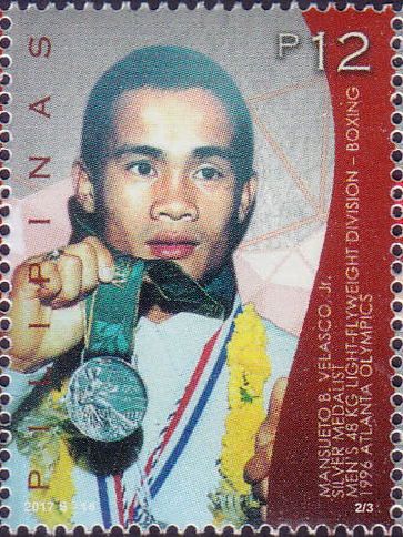 Philippine Olympic Silver Medalists